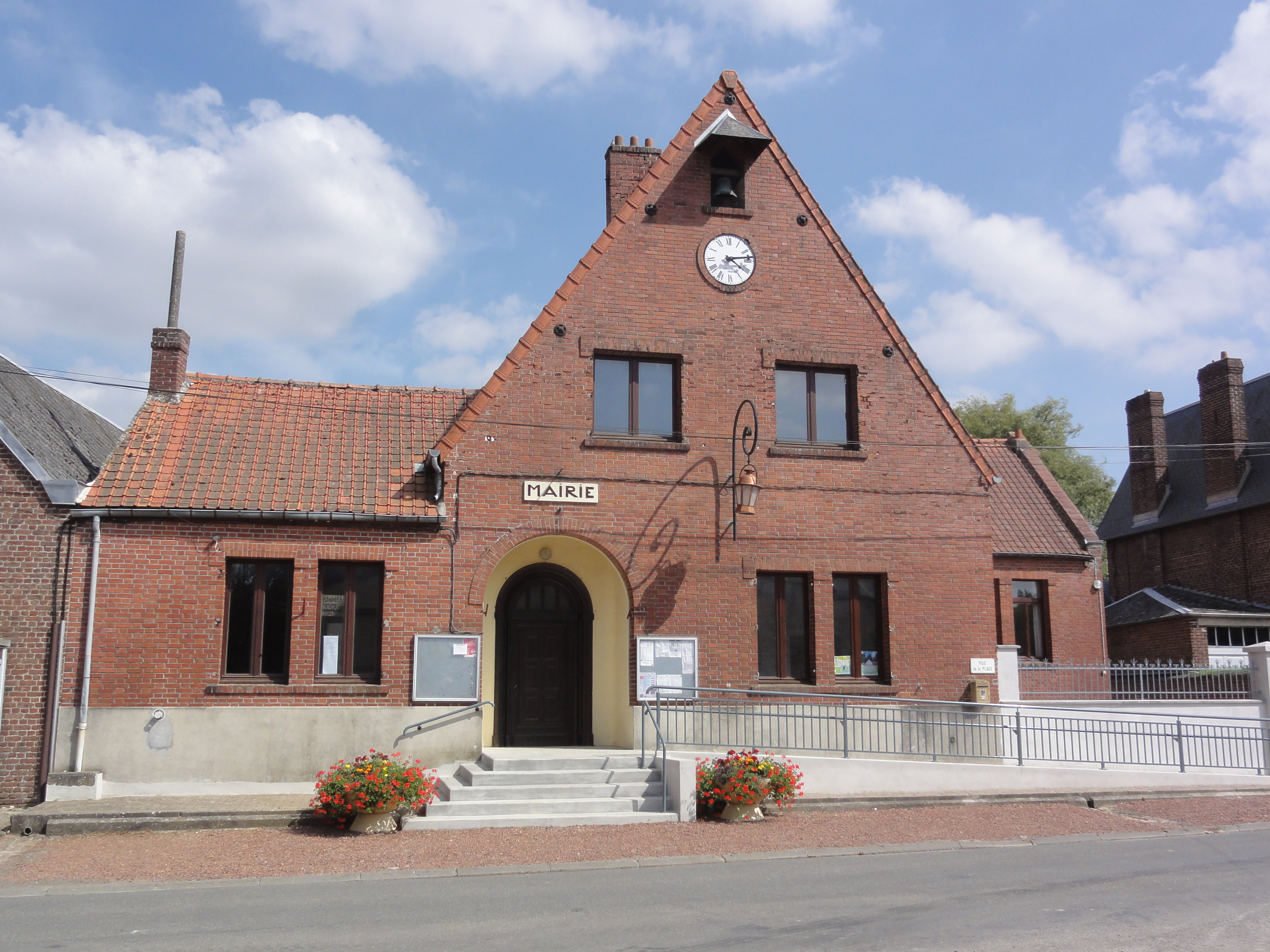 Ramicourt (Aisne) mairie